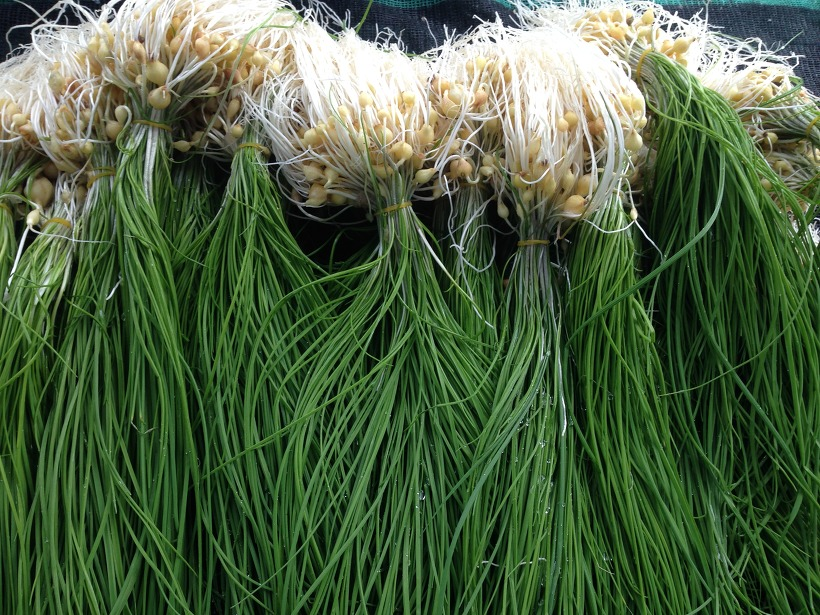 Korean wild chives (Allium monanthum) in Seosan, Korea